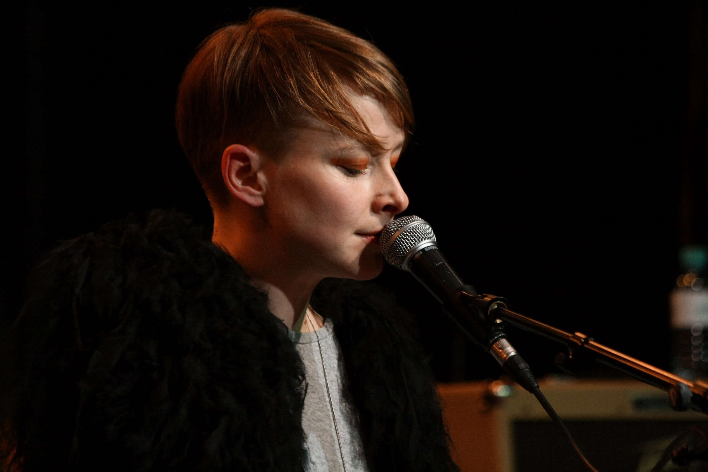 Violetta Parisini with Florian Cojocaru (git, voc, toys), Fabian Rucker (sax, voc, keys), Jojo Lackner (b), Alex Pohn (dr) - presenting her second album open secrets in 2012 at Porgy & Bess in Vienna, Austria.